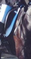 Created by User:Eventer